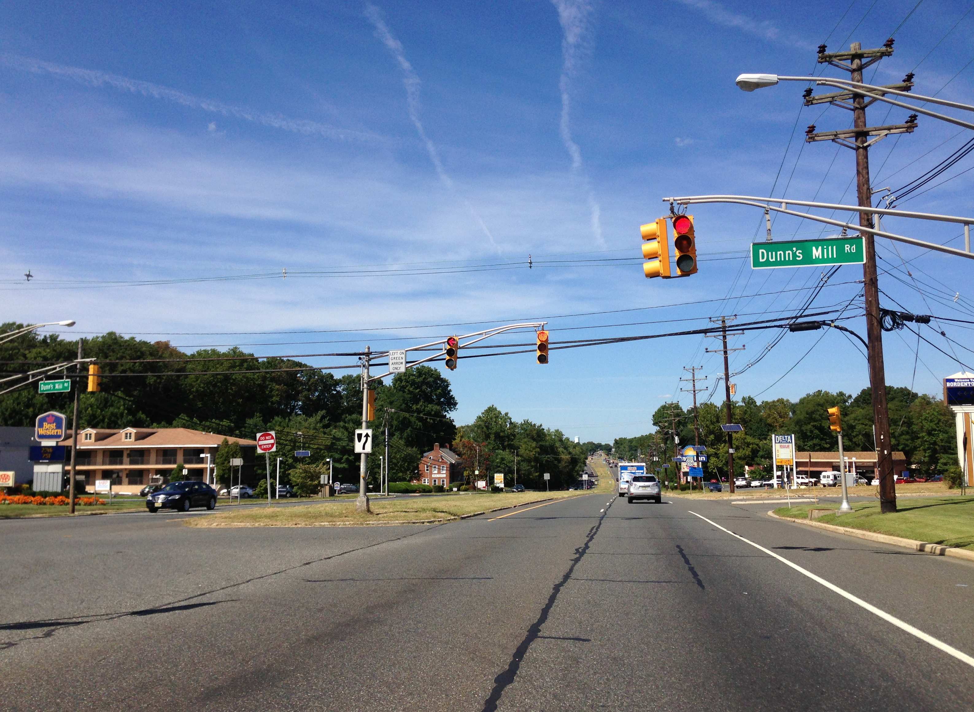 View north along U.S. Route 206 at Dunn's Mill Road in Bordentown Township, New Jersey